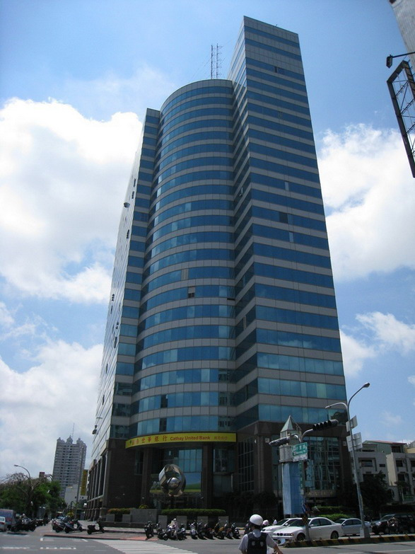 Golden Triangle building.A 26 floors building located at Tainan City,Taiwan.